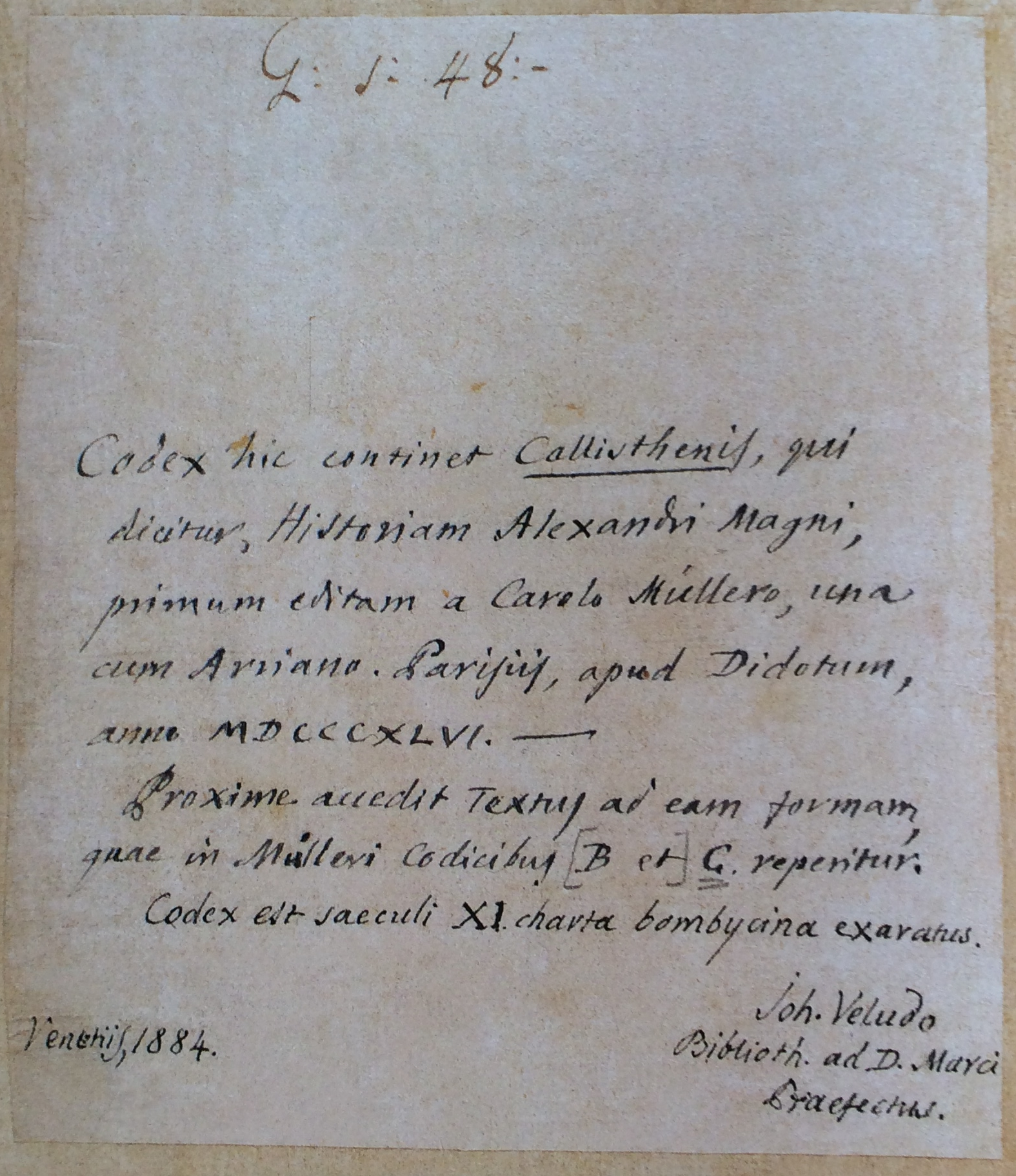 Library description Hellenic Institute codex 5 (Alexander Romance recension gamma)